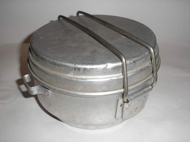 mess kit